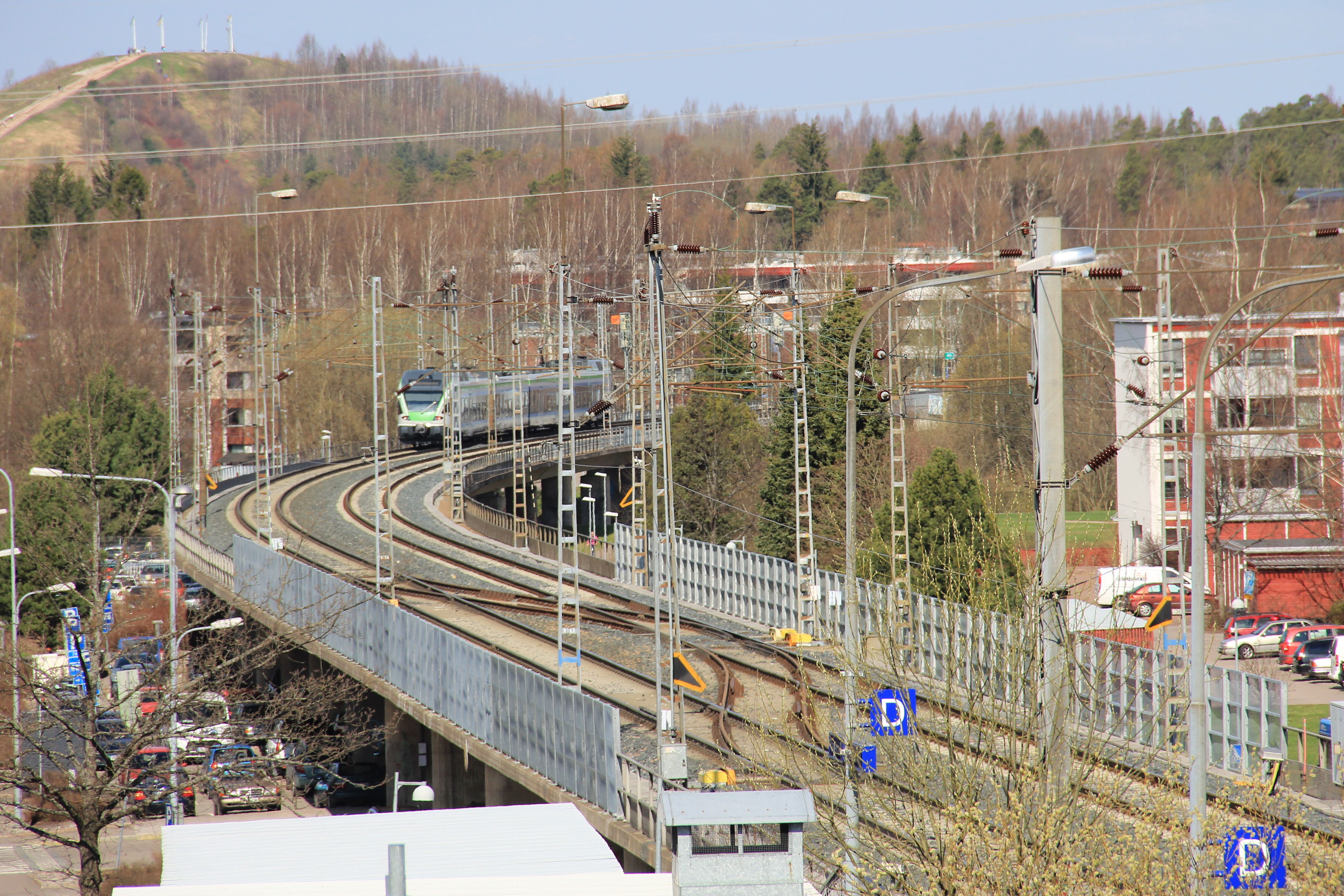 Piijoki railway bridge, Kannelmäki, Helsinki Finland. - Seen from Kannelmäki railway station.